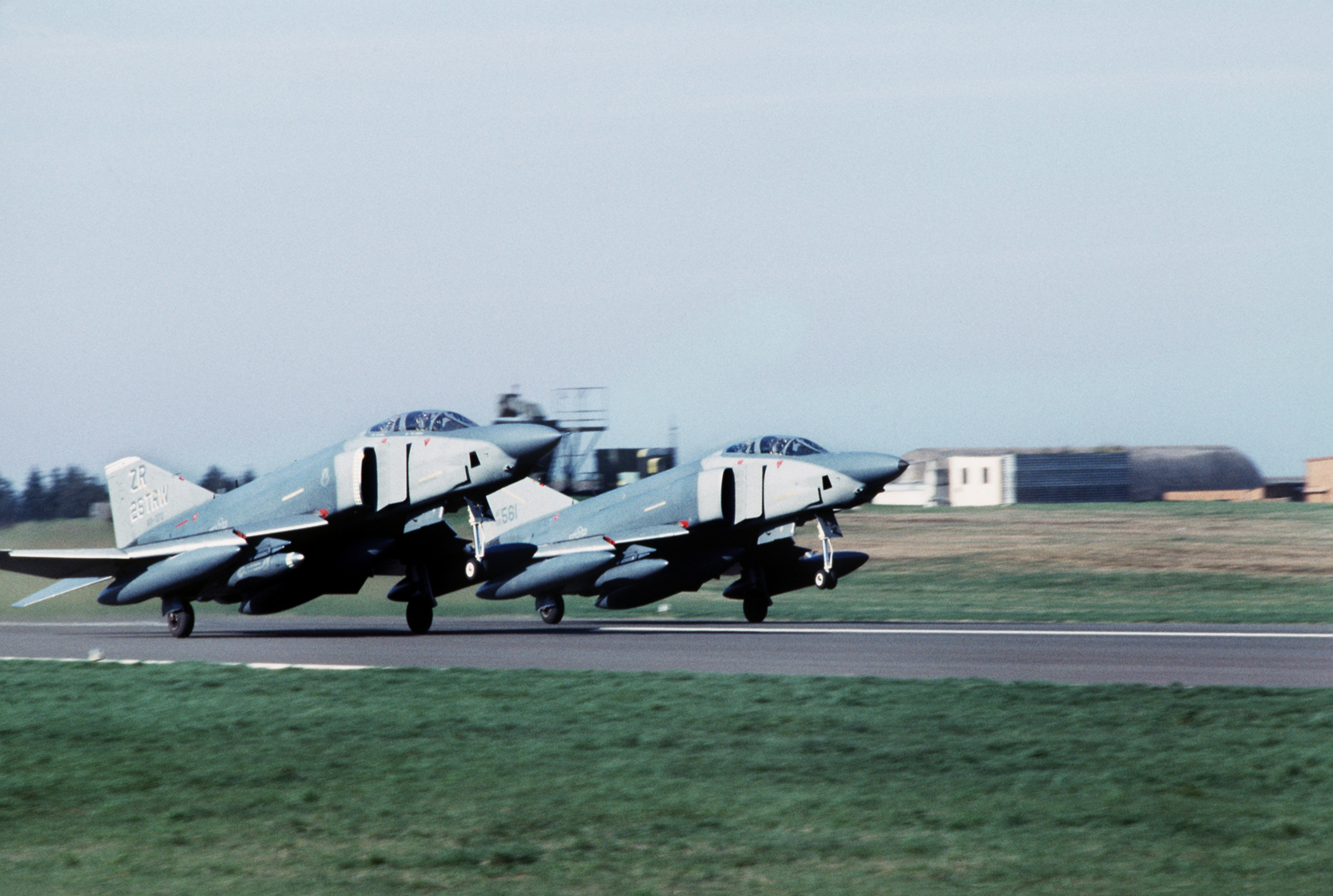 Two U.S. Air Force McDonnell Douglas RF-4C Phantom II from the 38th Tactical Reconnaissance Squadron, 26th Tactical Reconnaissance Wing, take off from Zweibrücken Air Base, Germany, for the last time. The 26th TRW's last three aircraft were being flown to the United States following wing's inactivation on 5 April 1991.